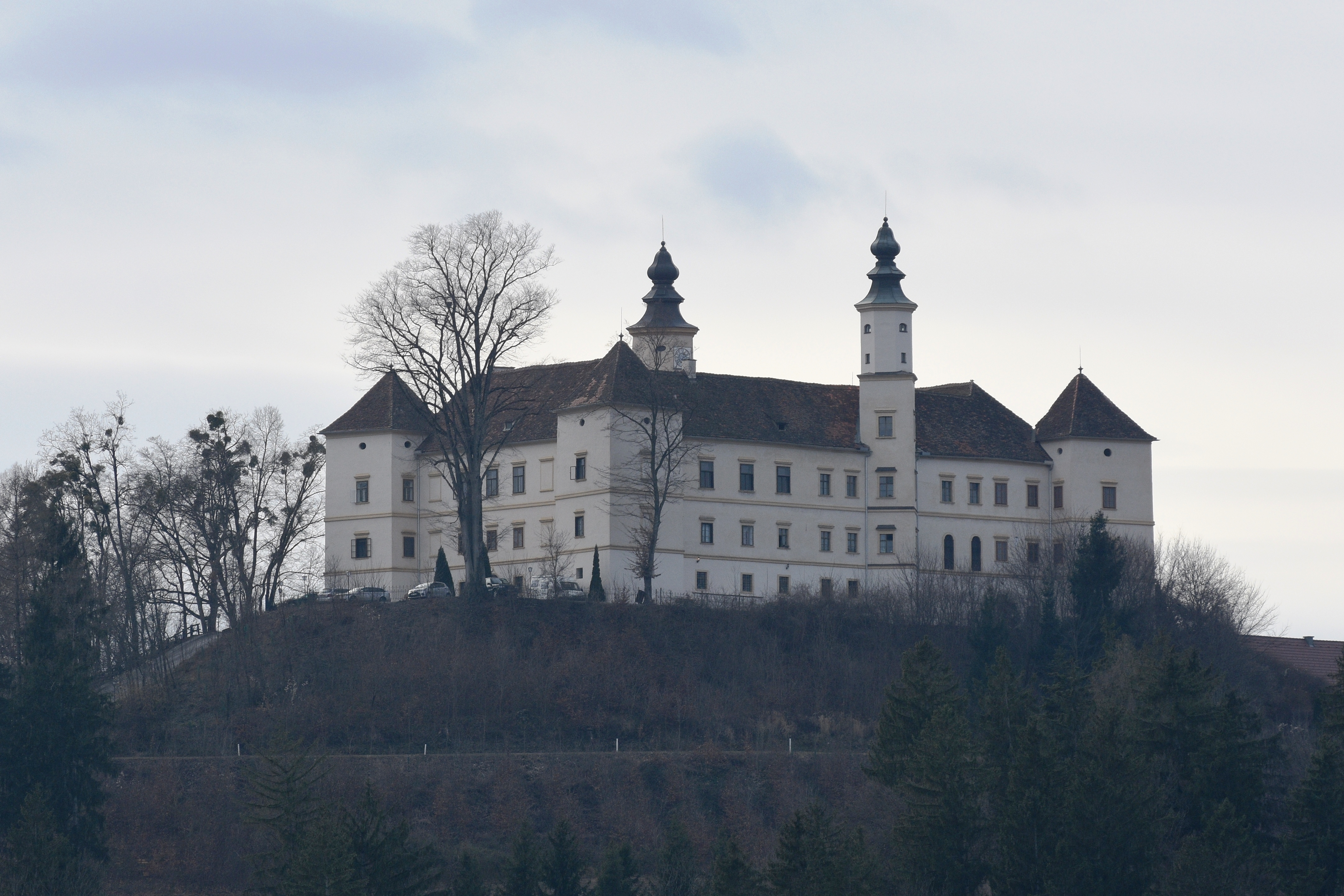 Castle Schloss Freiberg